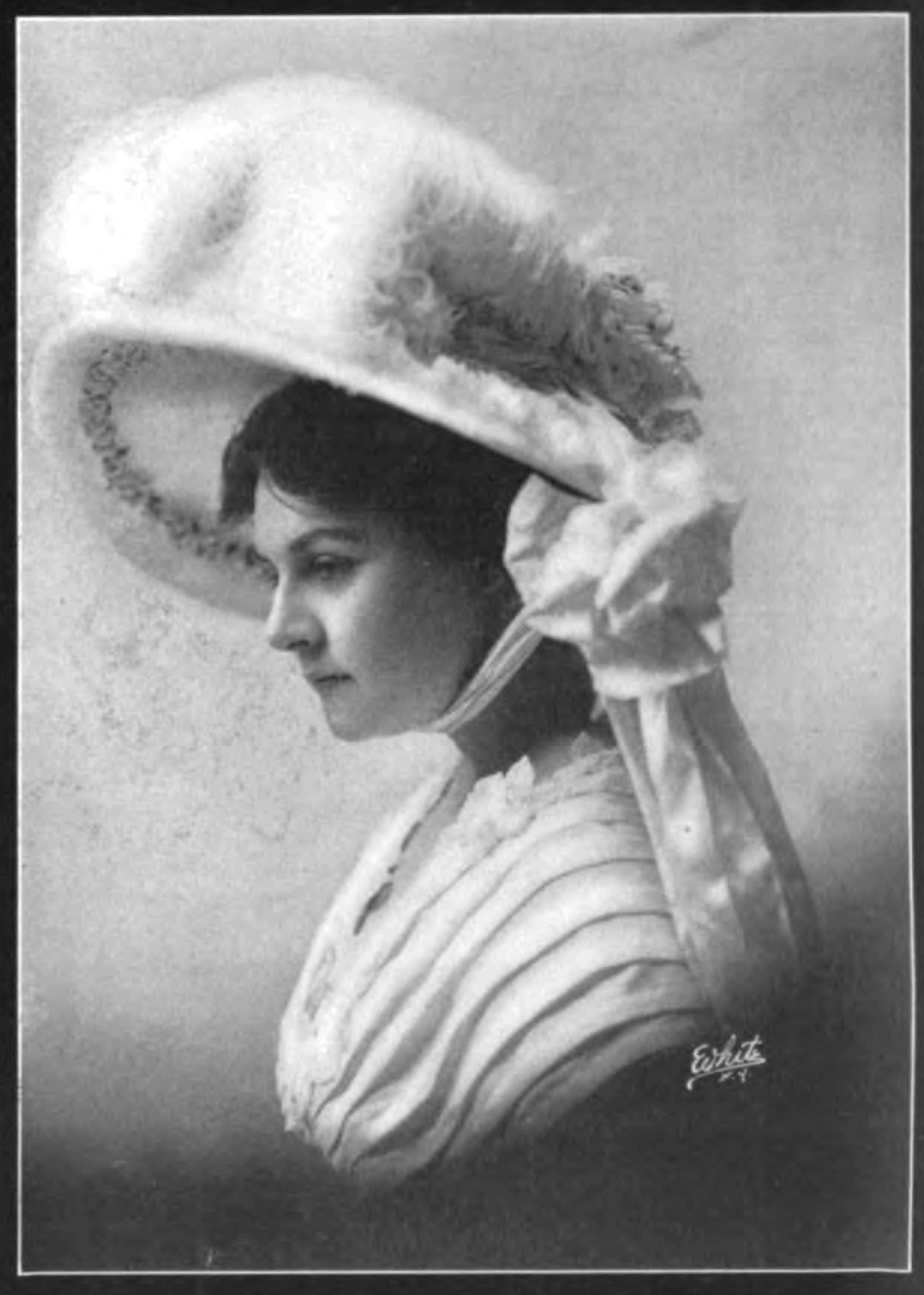 Eva Francis was an American stage and film actress, active from 1904 to 1919